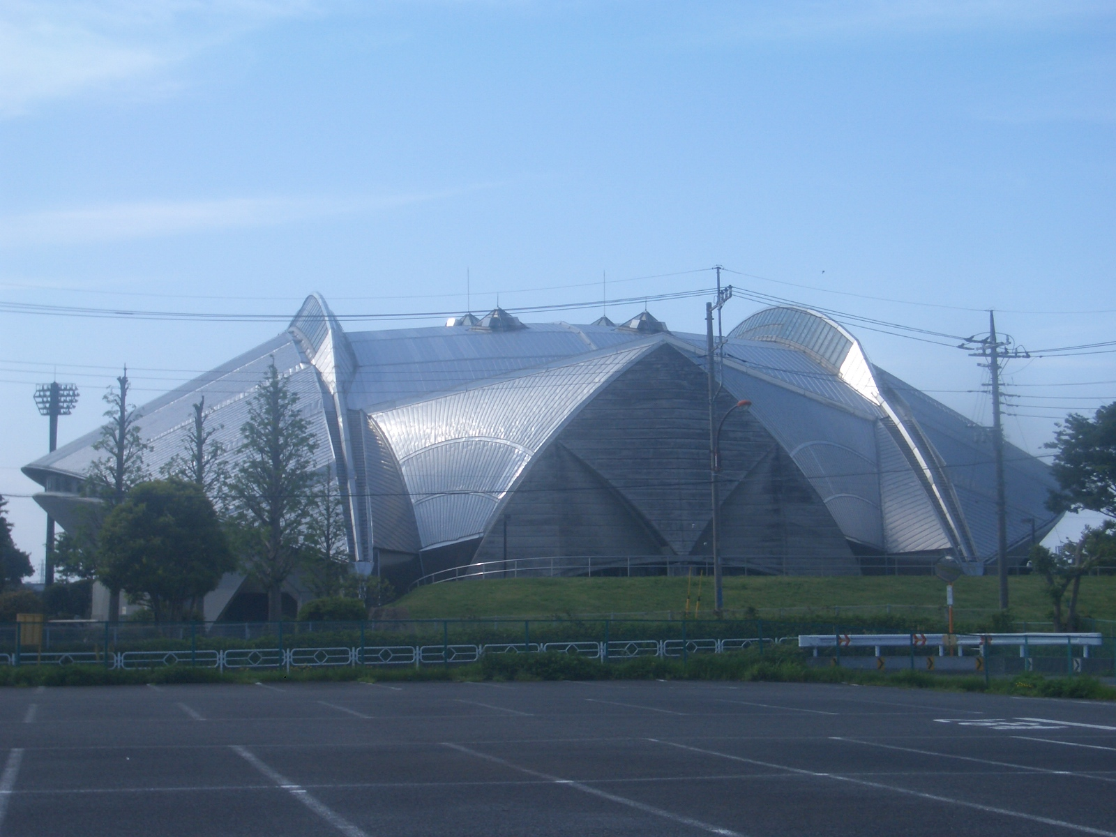 This is one of gymnasiums desighed by Fumihiko Maki who represent Japanese modern architect. It is located at Fujisawa city Kanagawa,Japan.